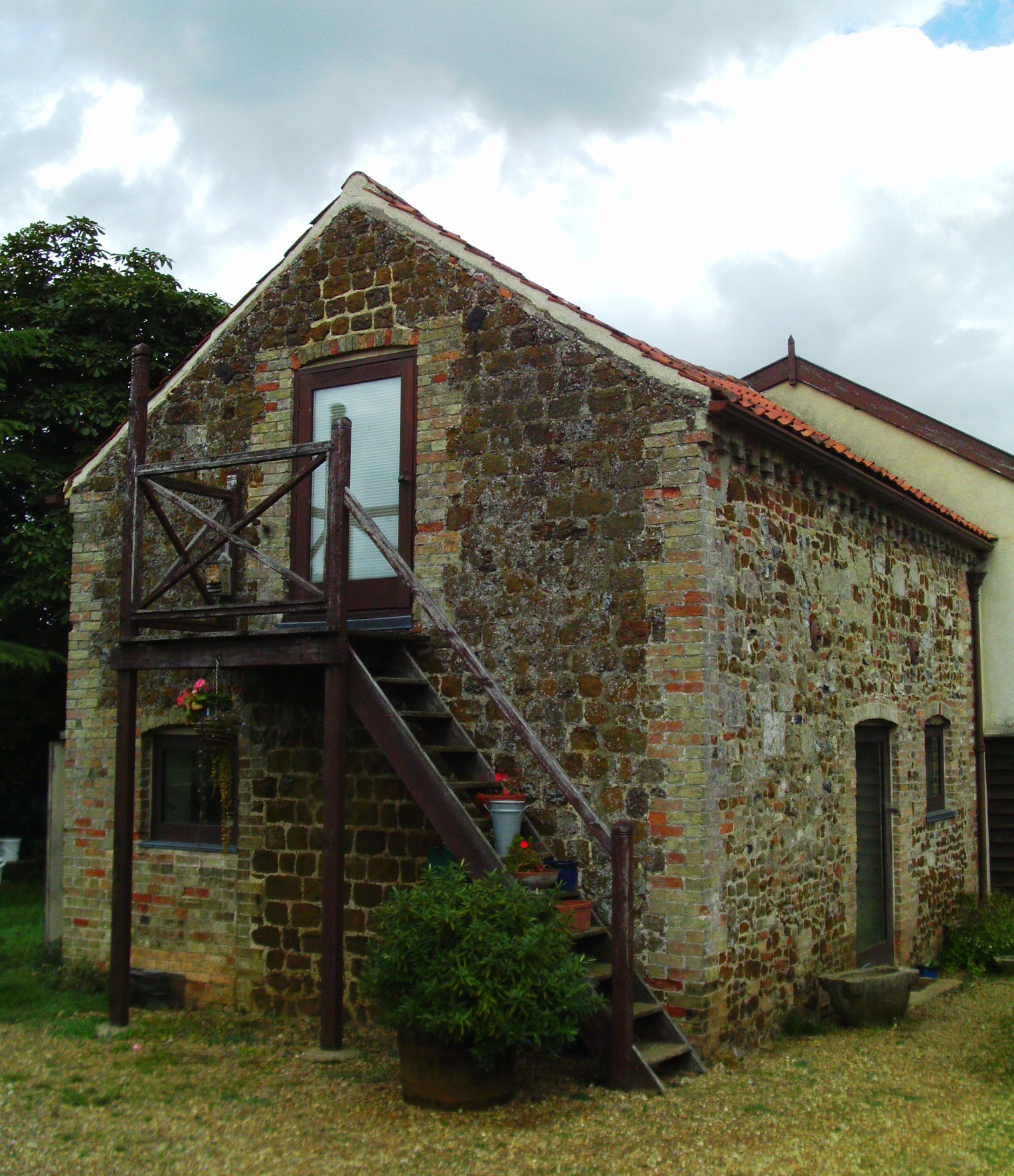 Carrstone